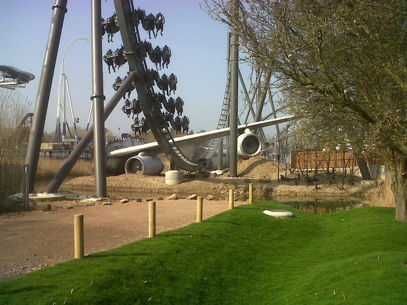 the swarm drop, entering the near miss point (under plane wing)